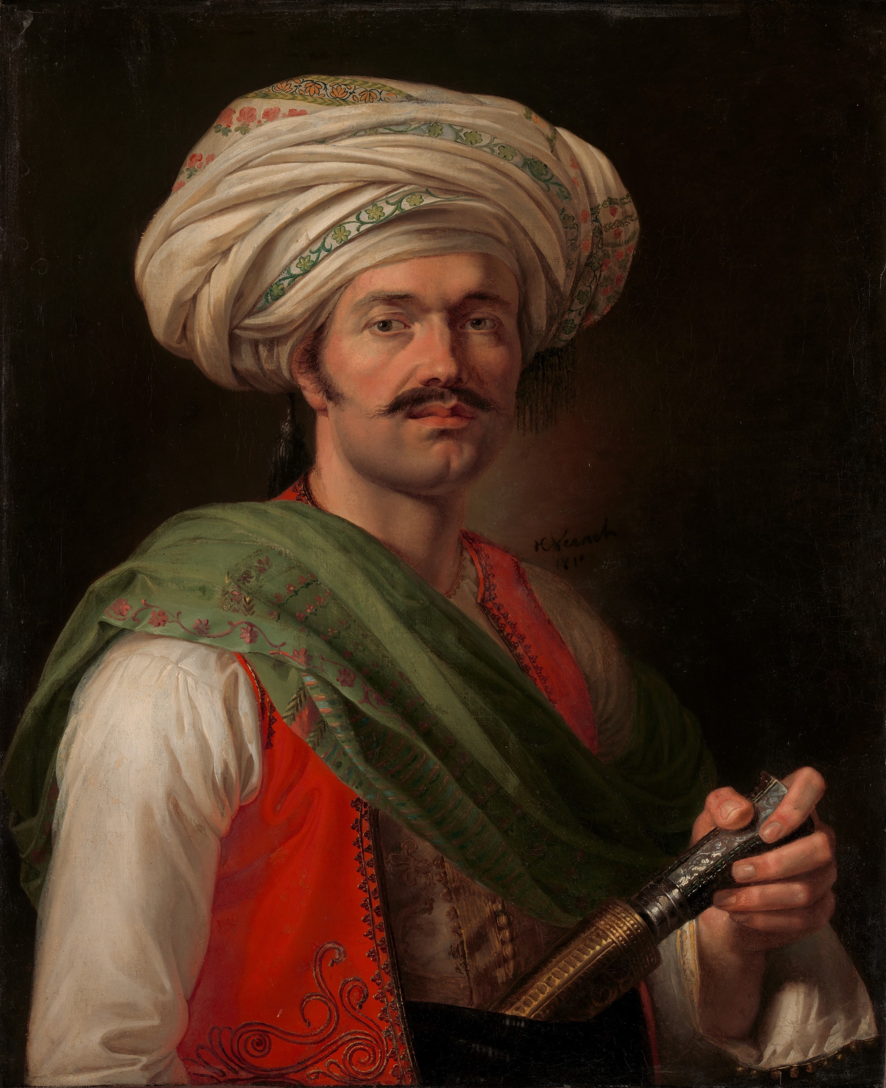 "Portrait of Roustam Raza, the mamluck of Napoleon", oil on canvas, 75*61.6 cm. New York Metropolitan Museum of Art